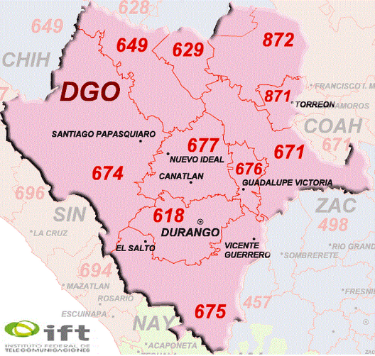 Area Code Maps for the Mexican State of Durango